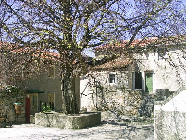 A town of Beli at the Cres Island, Croatia